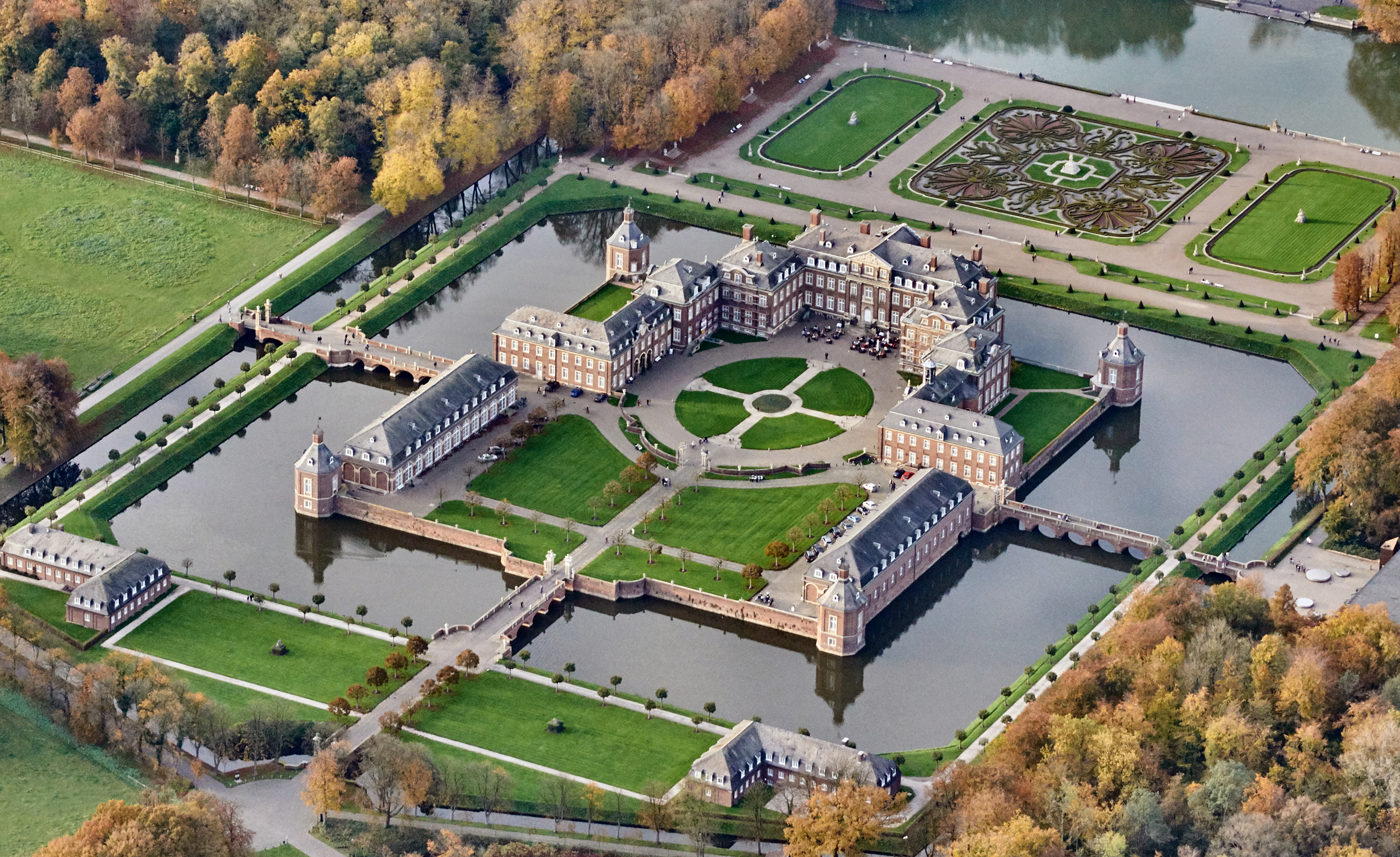 Schloss Nordkirchen in Nordkirchen, district of Coesfeld, is the largest water castle in Westphalia, Germany. It was built between 1703 and 1734.